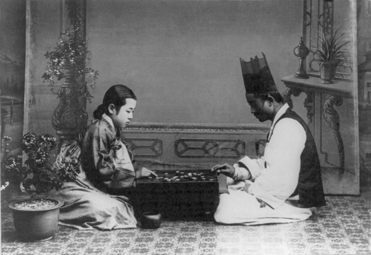 Playing a game (go). Man and woman seated on floor playing game on board. TITLE: Korea CALL NUMBER: LOT 11356-3 [item] [P&P] REPRODUCTION NUMBER: LC-USZ62-79998 (b&w film copy neg.) CONTROL #: 2001705592